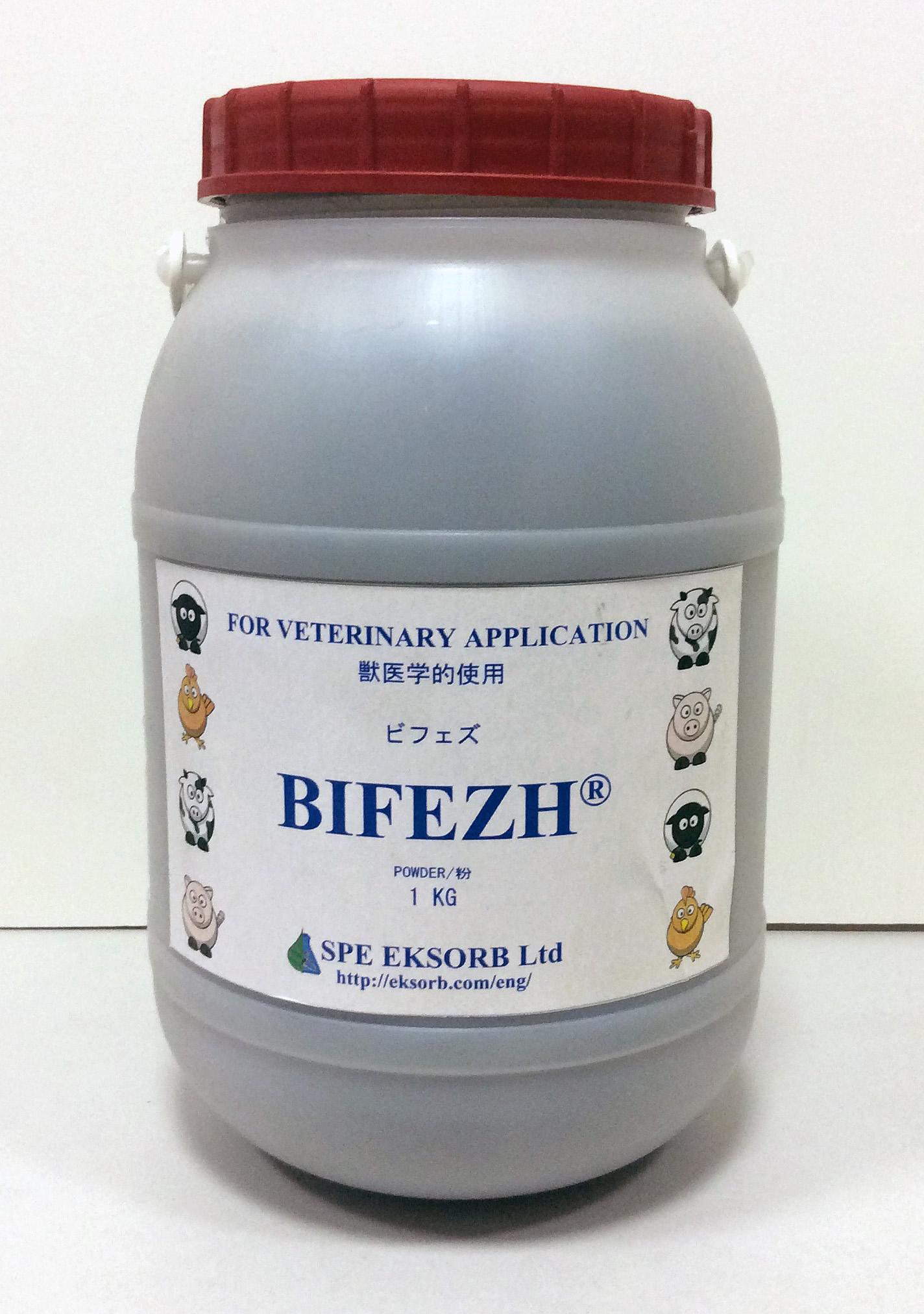 Bifege, veterinary medication containing Prussian Blue is used as preventive medication as well as to treat animals who have experienced radioactive contamination or heavy metal poisoning.